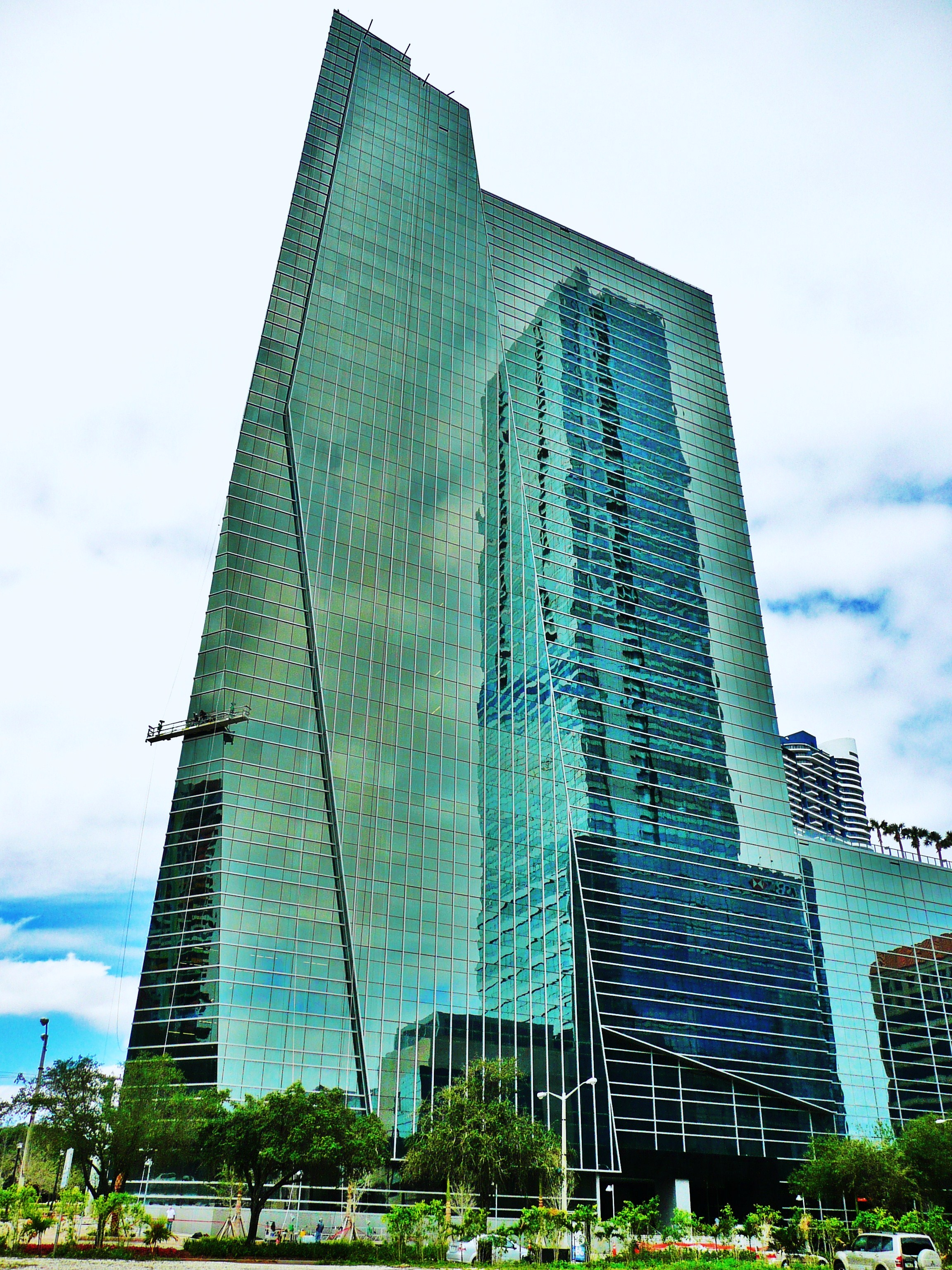 Digital photo taken by Marc Averette. 1450 Brickell in Miami's Brickell Financial District.